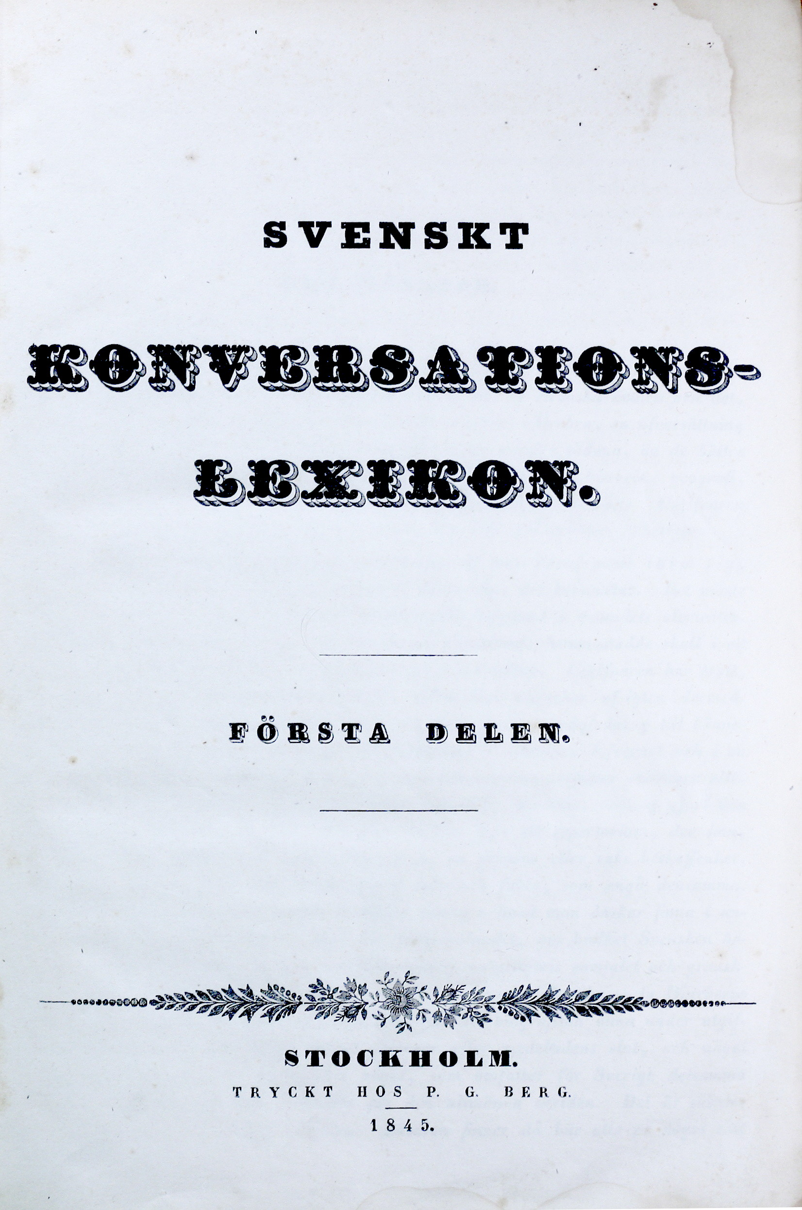 Title page of Svenskt konversationslexikon (4 volumes, 1845-1852), a Swedish encyclopedia.